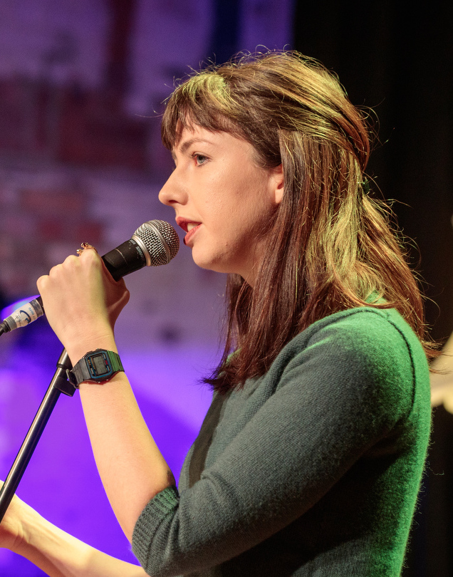 Poet Hera Lindsay Bird appearing at WORD Christchurch Festival, September 2018